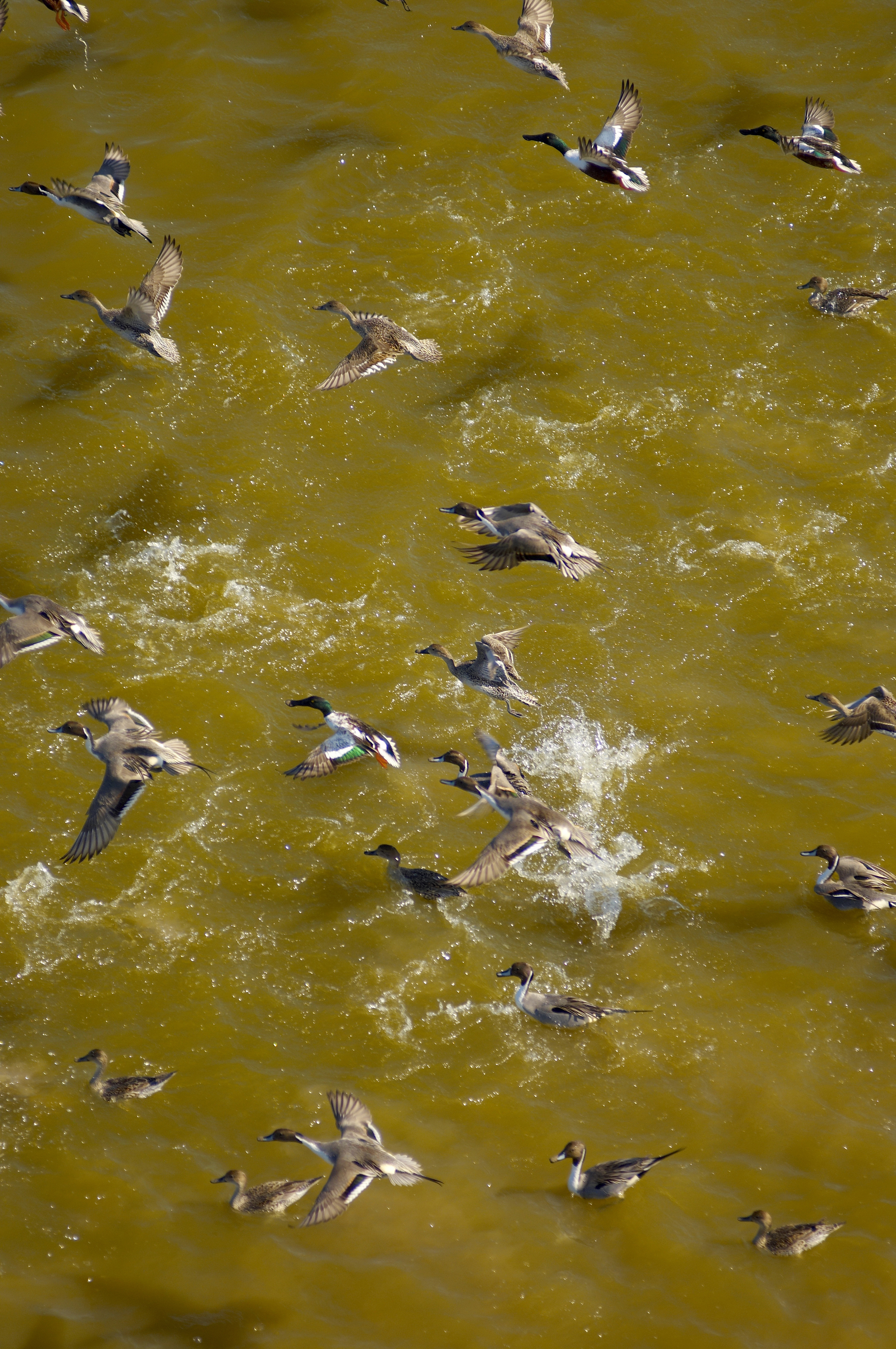 My name is Thierry Massihians and I'm a professional photographer established in Monterrey Mexico. This picture is part of a series I took in February 2007 during a flight above the swamp area of the coastal region of Culiacan Sinaloa. My website is